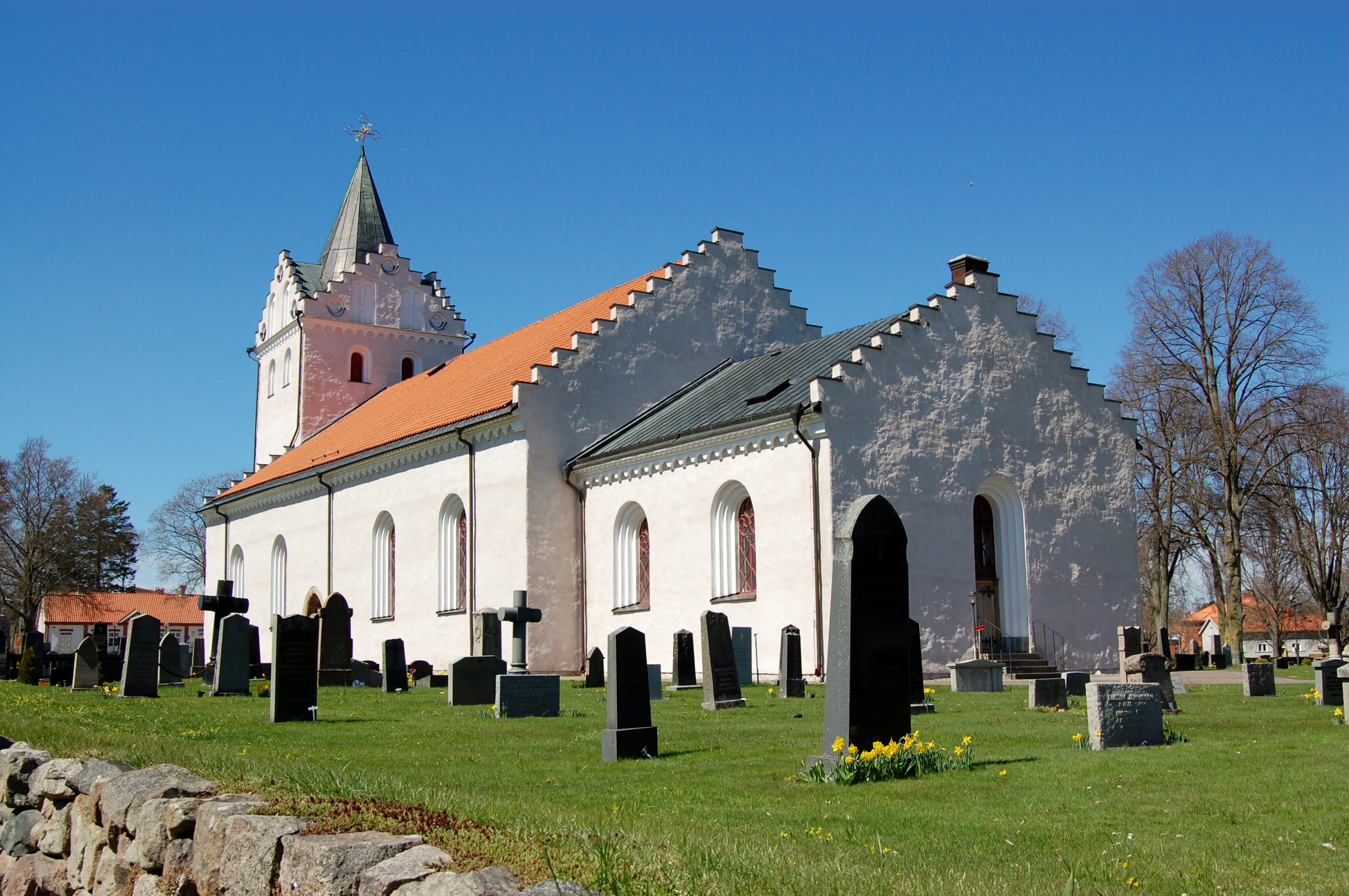 Ljungby Church.The Church dates back to the middle ages but during the race has undergone various remodeling and construction. 1757 was rebuild Church thoroughly. 1857 the building underwent an extensive renovation. On this occasion, the church tower with a crow which replaced a Bell Tower from the 16th century. The architect for this renovation was Carl Georg Brunius.